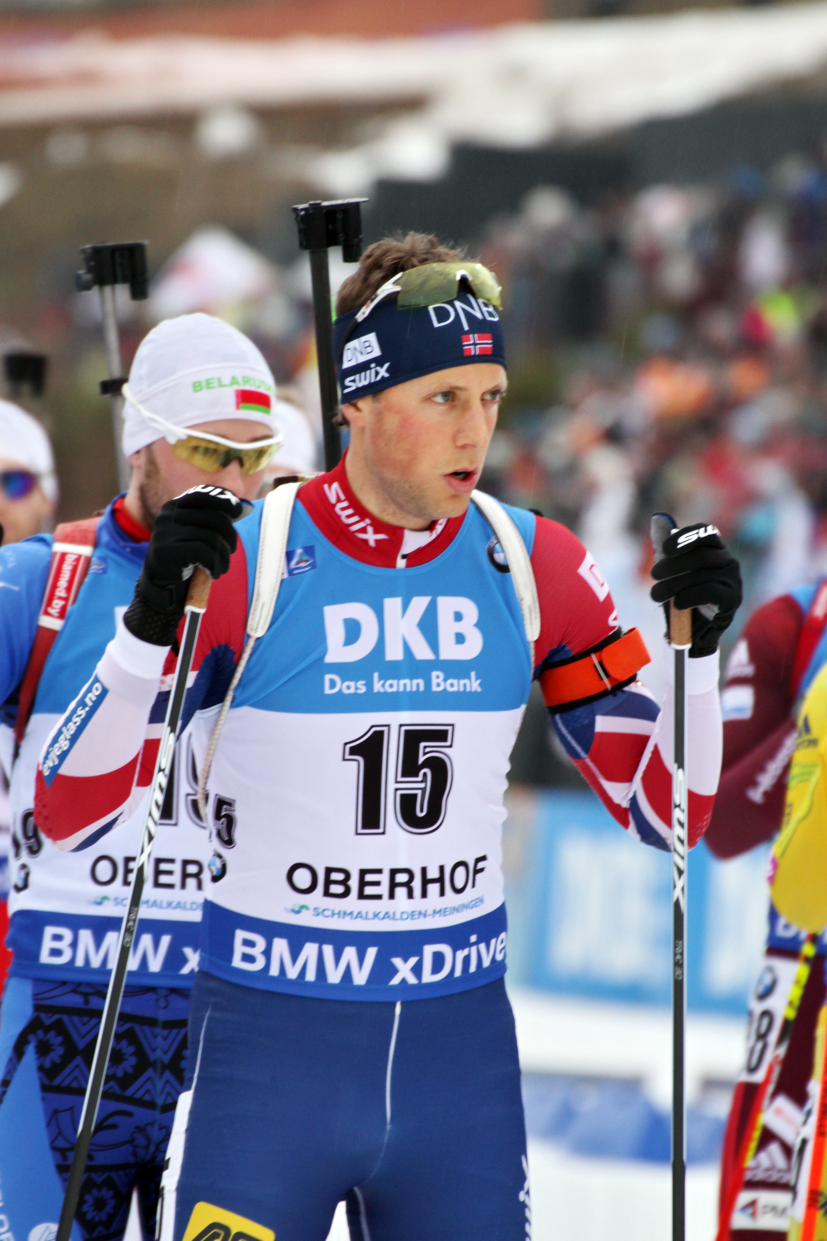 2018 Oberhof Biathlon World Cup - Pursuit Men